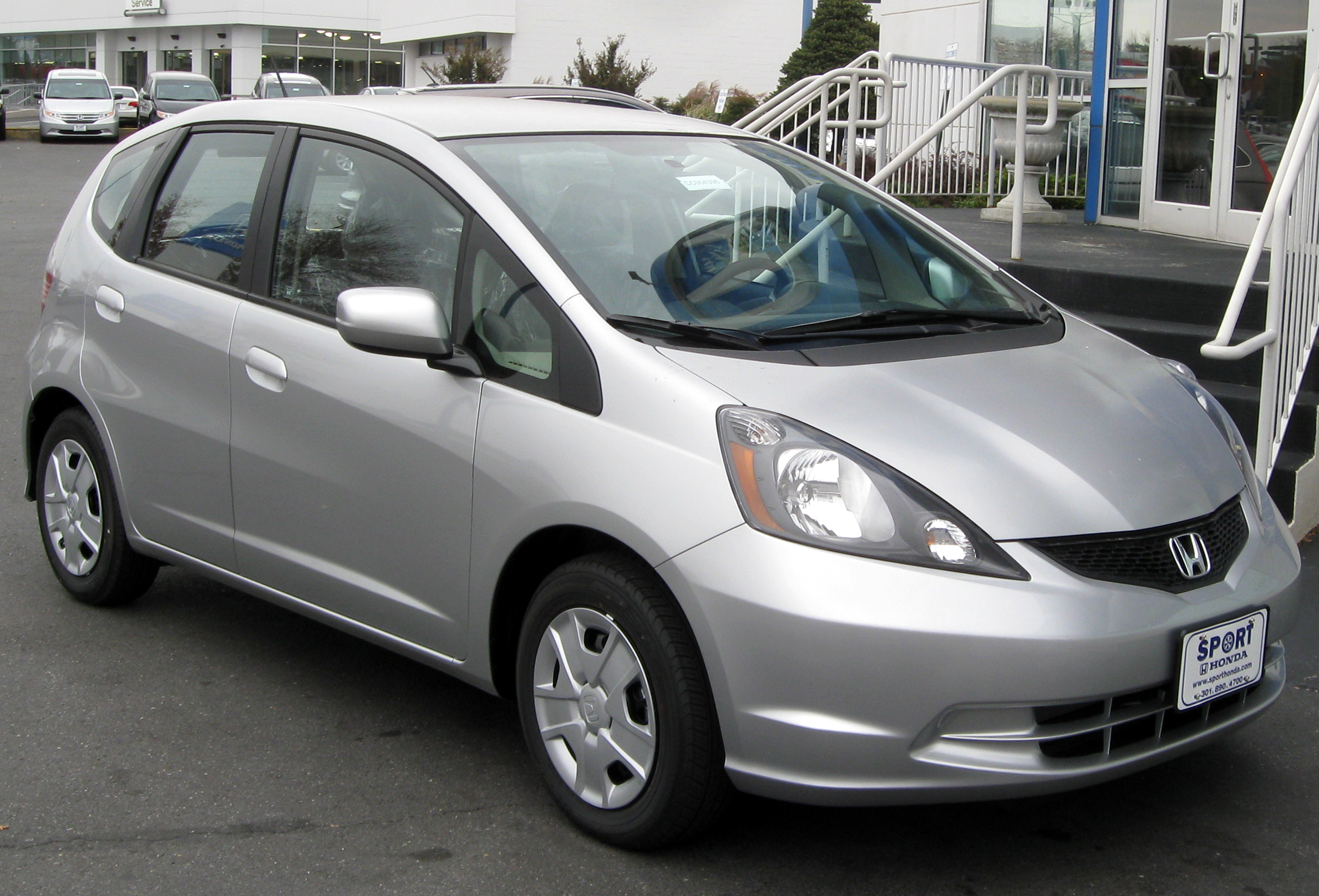 2012 Honda Fit photographed in Silver Spring, Maryland, USA.